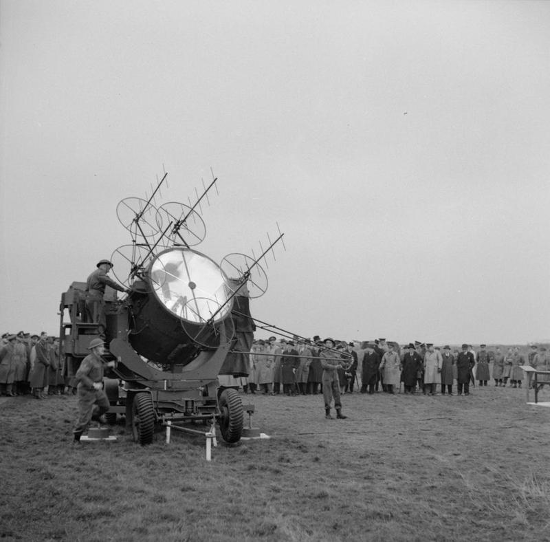 Radar and Electronic Warfare 1939-1945 Aircraft Navigation and Guidance: MPs visiting No 554 Anti Aircraft Battery near Harwich watching a demonstration of a searchlight with radar equipment known as ELSIE - 90 cm Searchlight Control Radar (SLC) No 2 Mk VI - which entered service in 1942 and was of immense assistance to anti-aircraft when used against the flying bomb attacks of 1944.